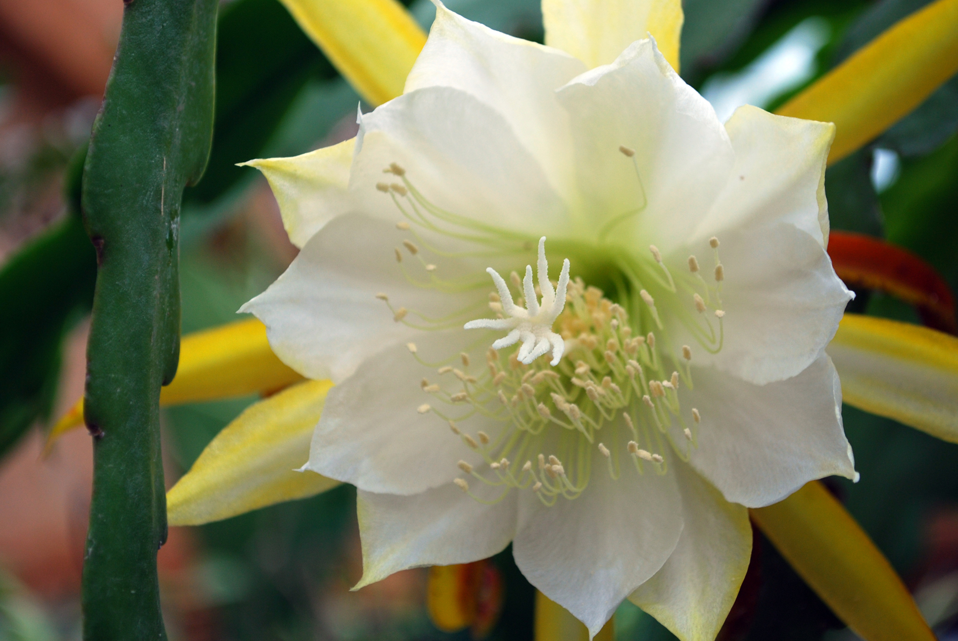 Epiphyllum laui